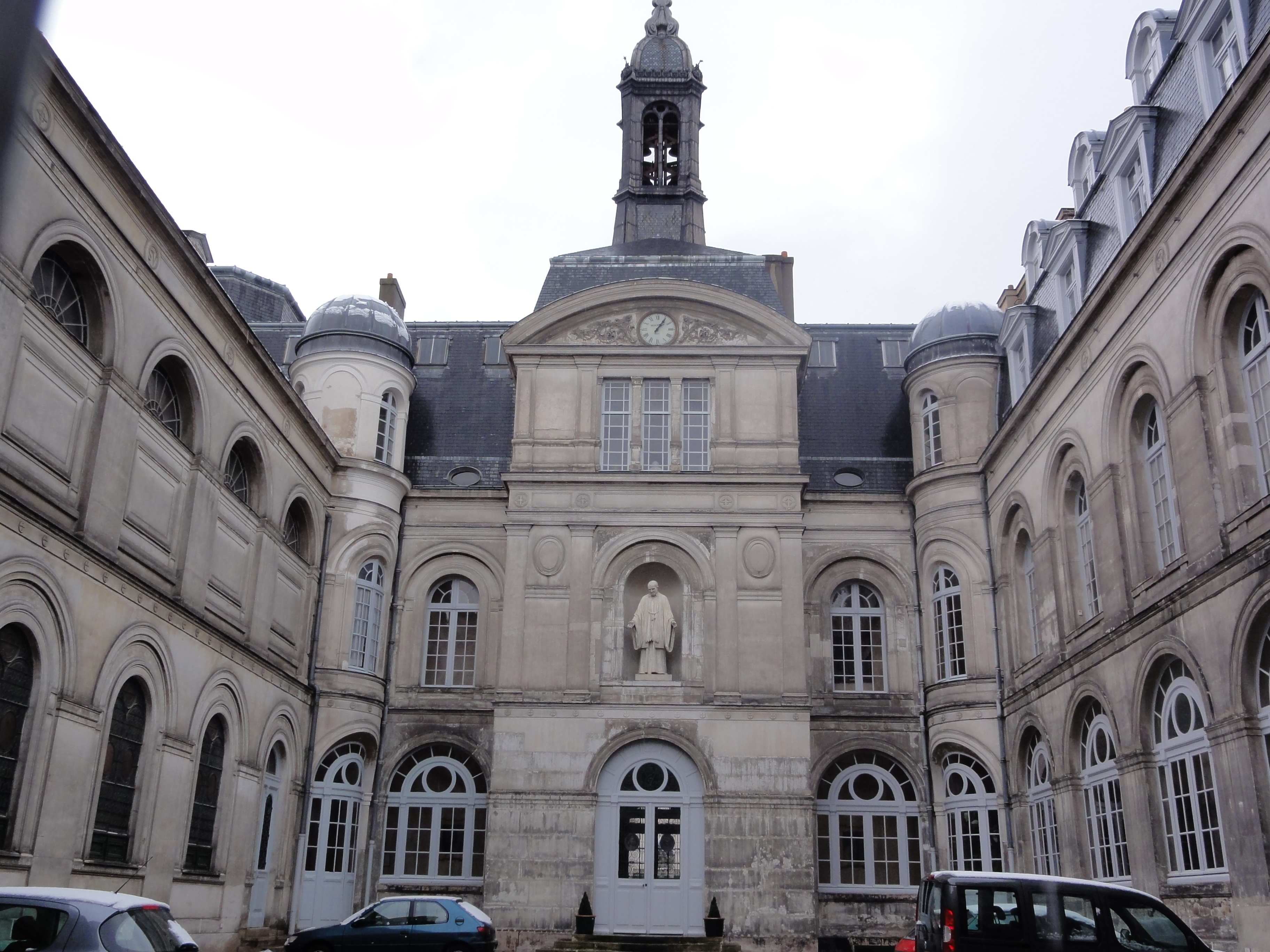 Mother House of Congregation of the Mission at Rue de Sevres - Paris